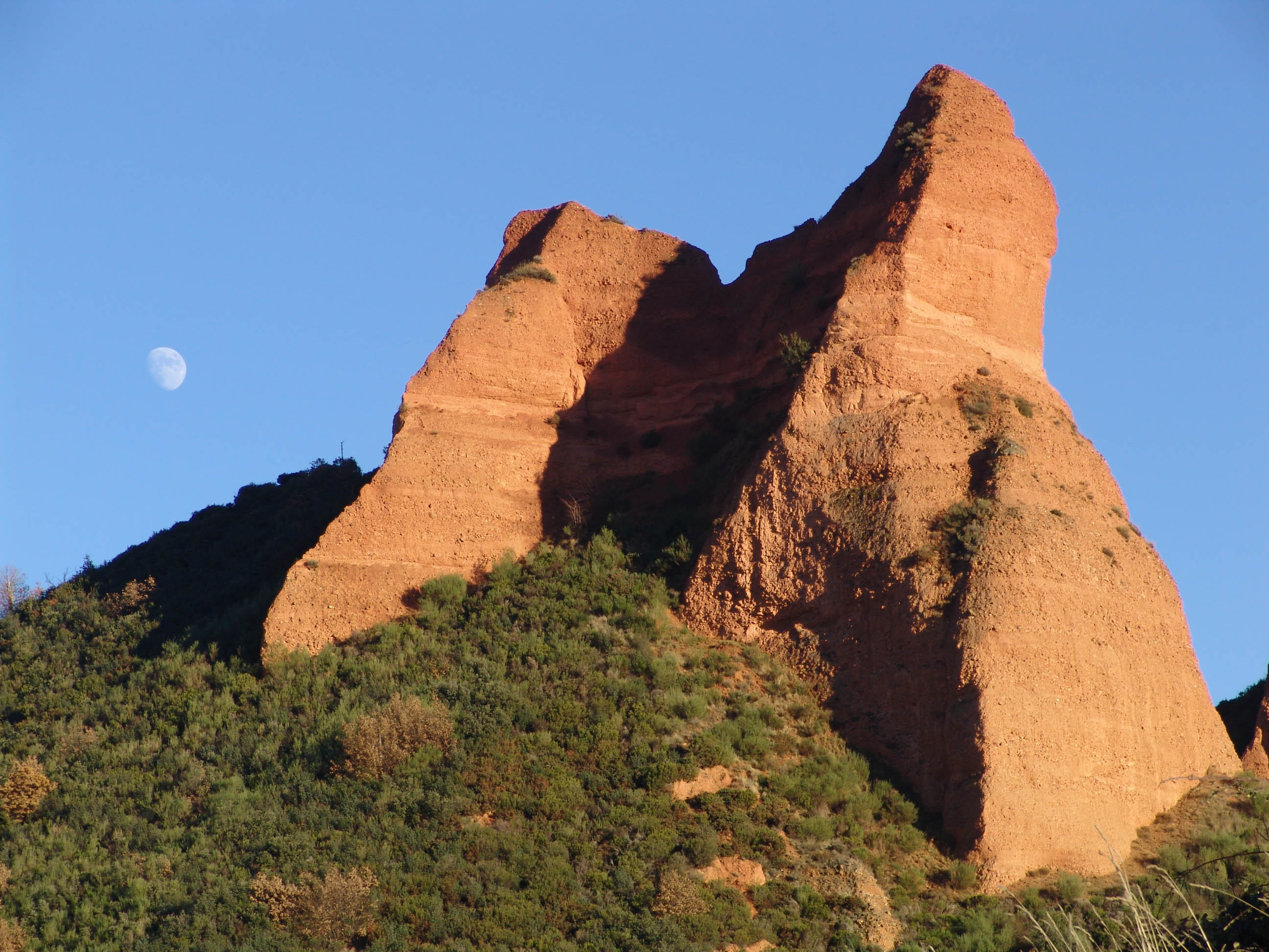 Picture taken by Rafael Ibáñez Fernández in Las Médulas, province of León, Spain, on 11th December, 2005. Version with a lower resolution. The original picture has 2.31 MB.